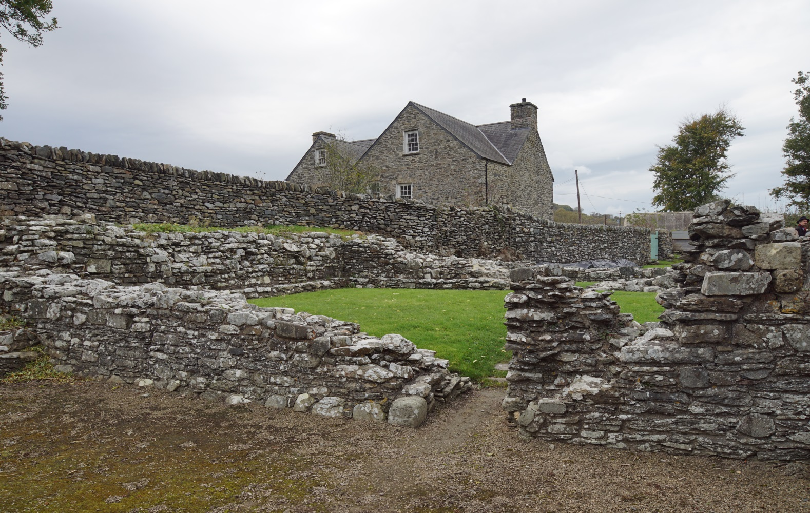 Strata Florida Abbey, Wales. Chapter house and Great Abbey Farm (located on the spot of the refectory)